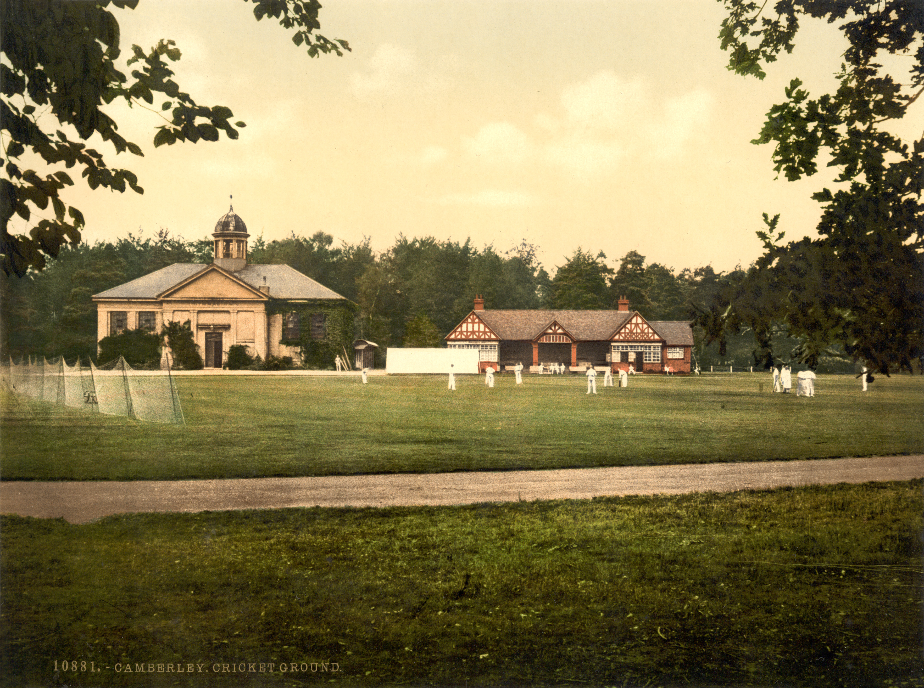 Royal Military College cricket grounds, Sandhurst, Camberley, Surrey, England